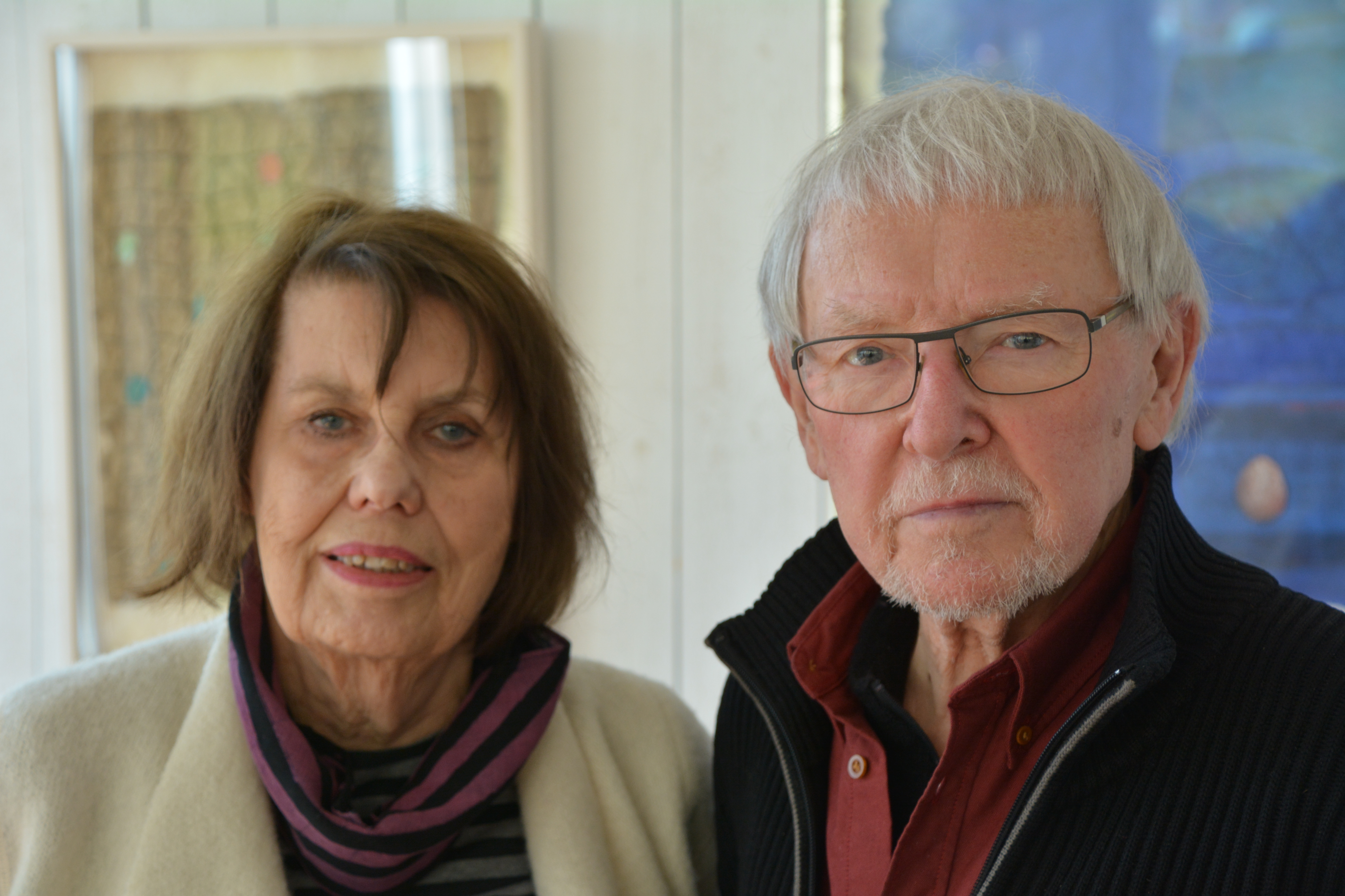 Ulla och Gustav Kraitz